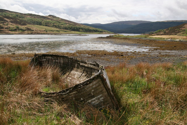 Old boat on Càrna overlooking Caol Chàrna, Scotland